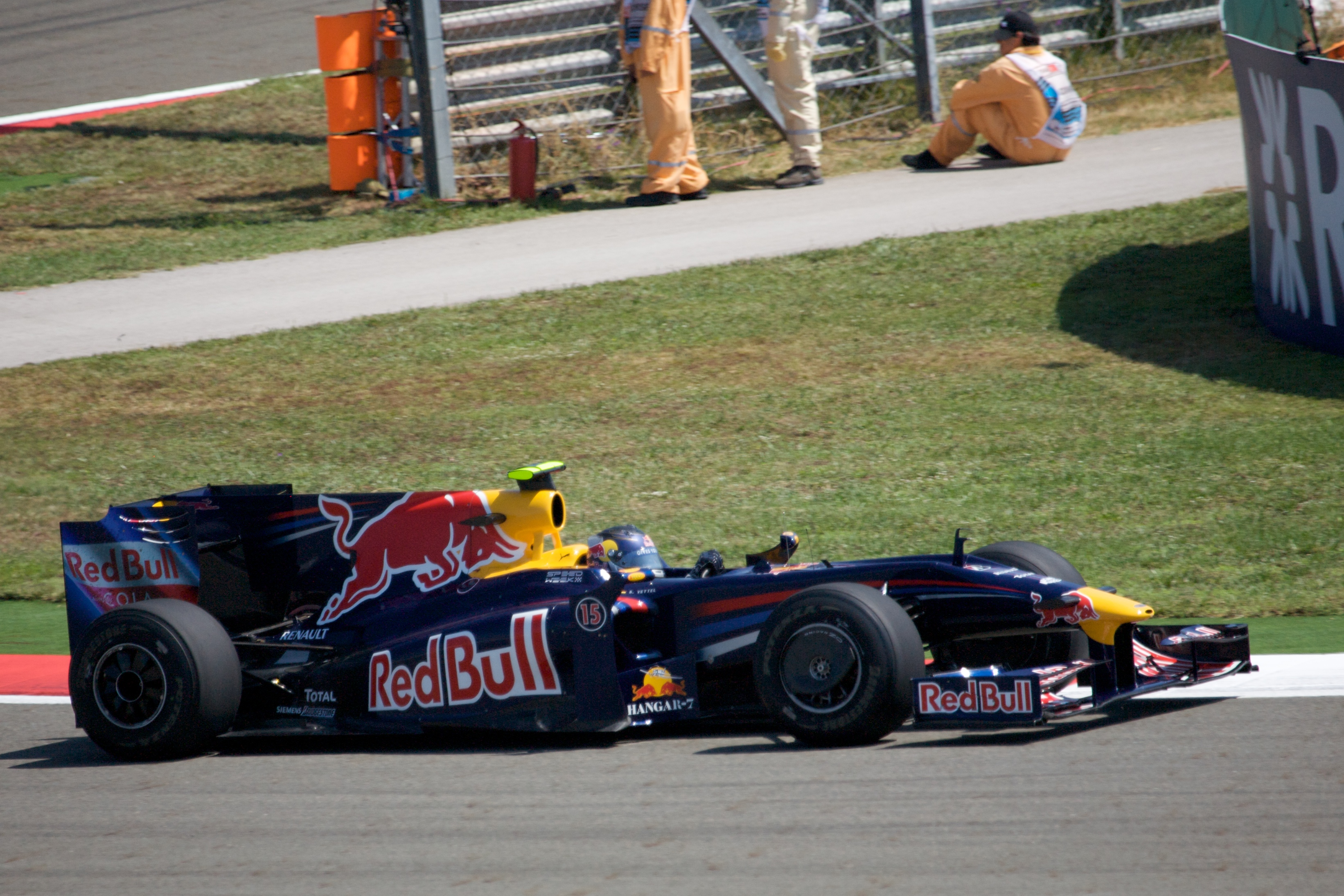 Sebastian Vettel driving for Red Bull Racing at the 2009 Turkish Grand Prix.